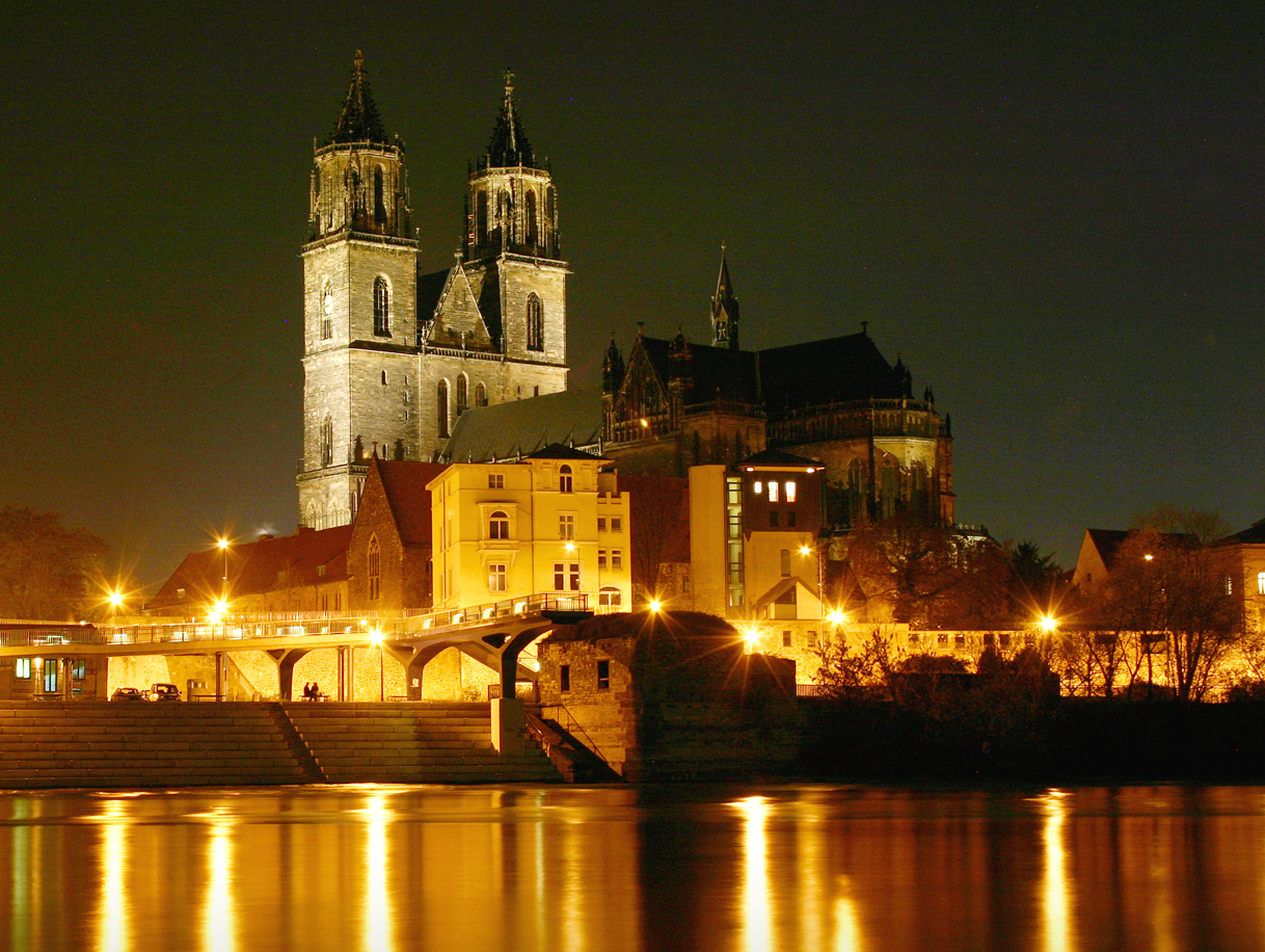 Der Magdeburger Dom bei Nacht